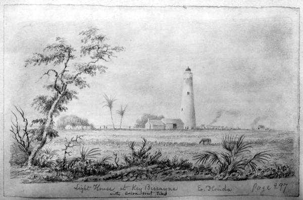 Cape Florida Light, 1830s.